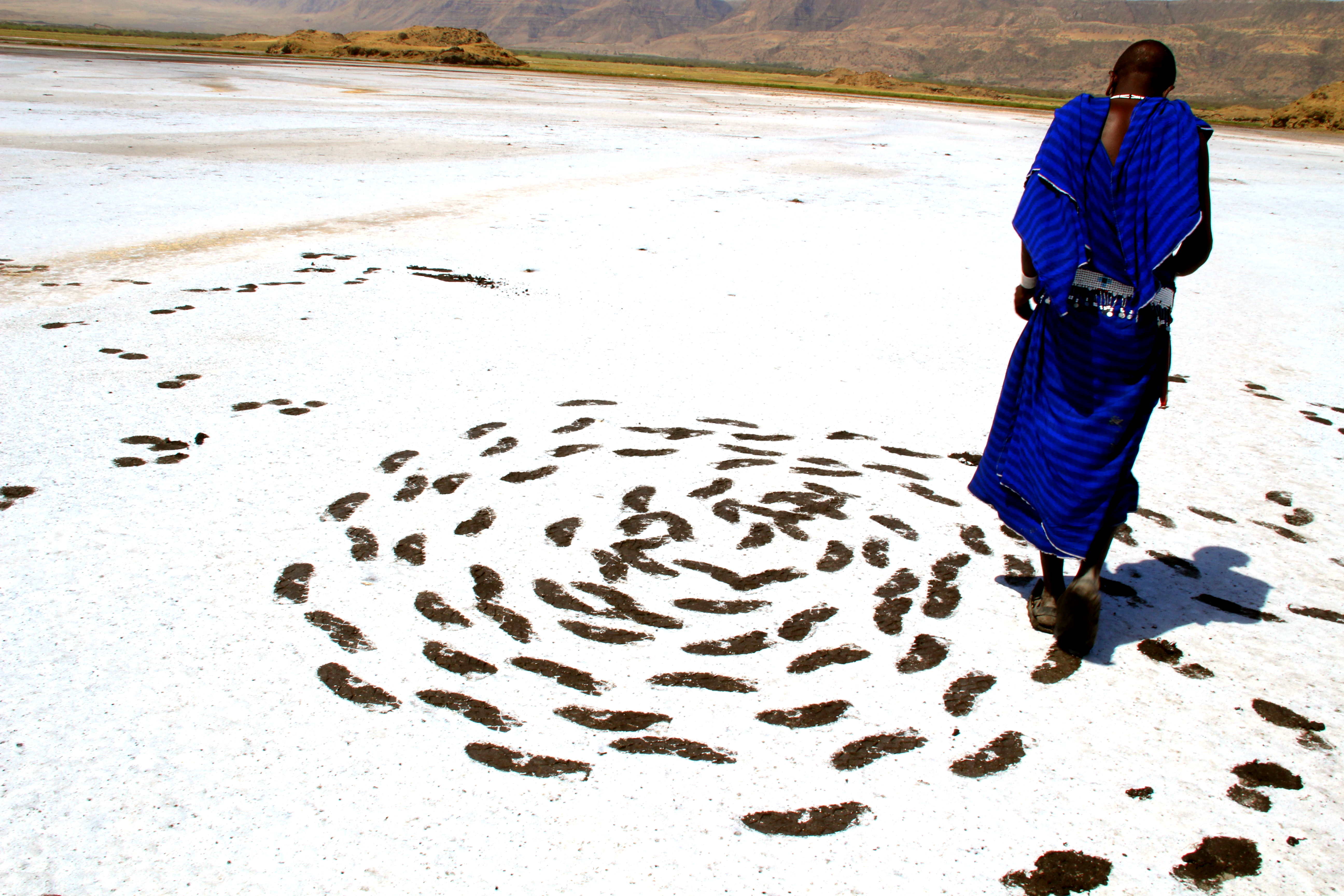 This is an image of Cultural Fashion or Adornment from Tanzania